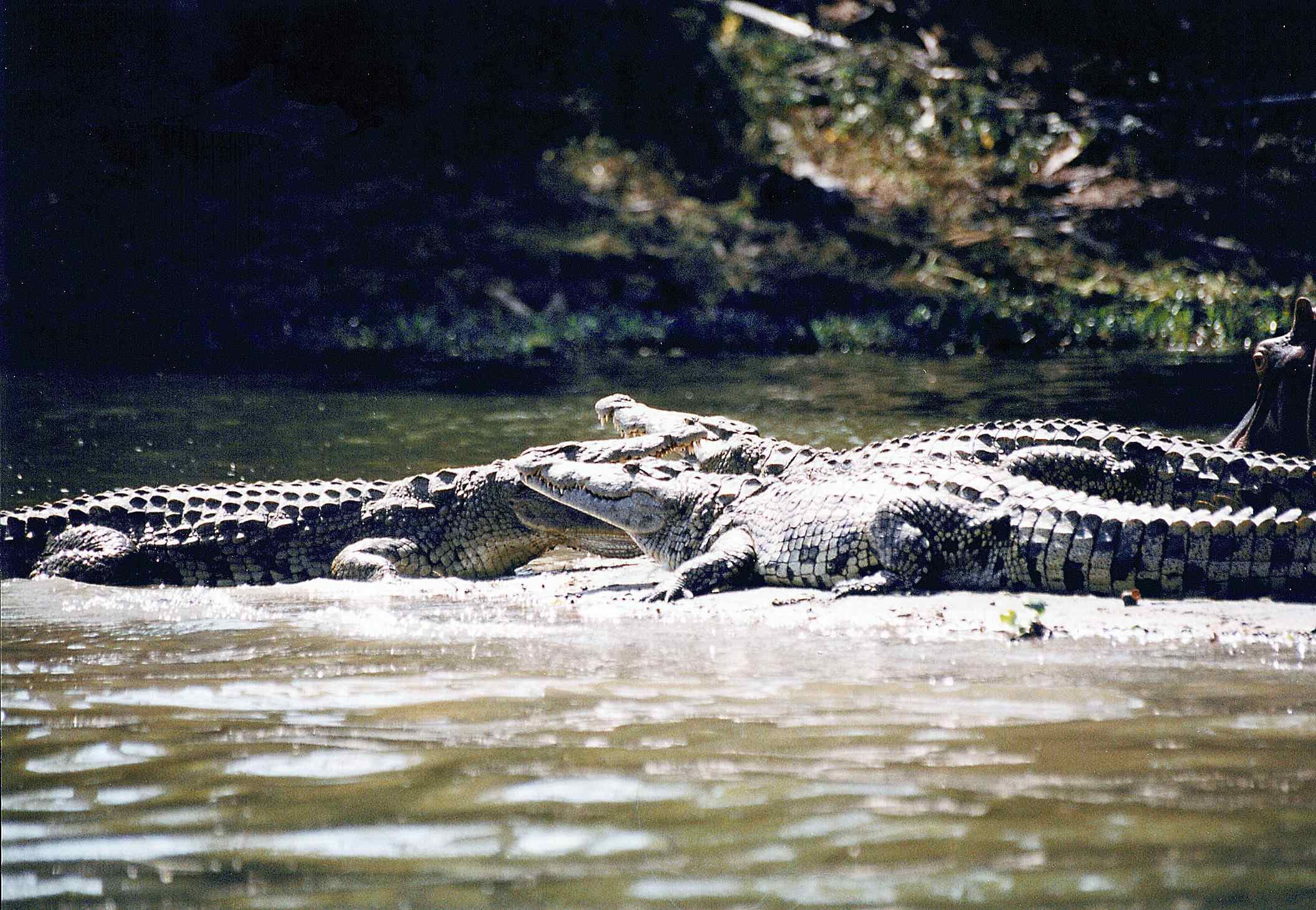 Crocodiles sunbathing at Liwonde National Park, Malawi